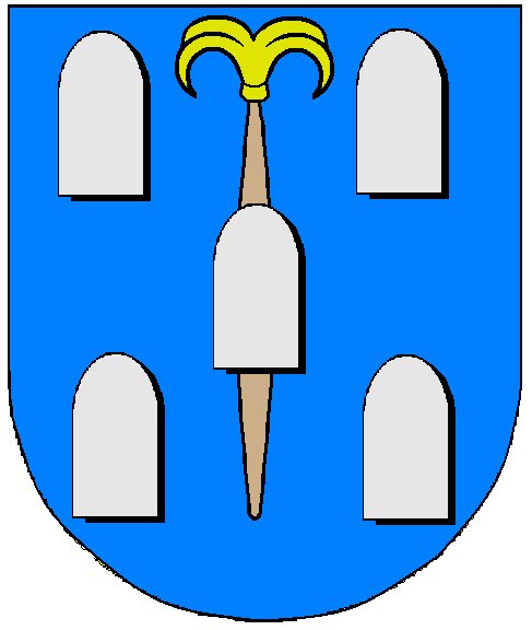 coat of arms for Funchal, Madeira island, as it is featured in the book "Tesouro da Nobreza", of the "Rei d´Armas da Índia" Francisco Coelho, published in 1675.